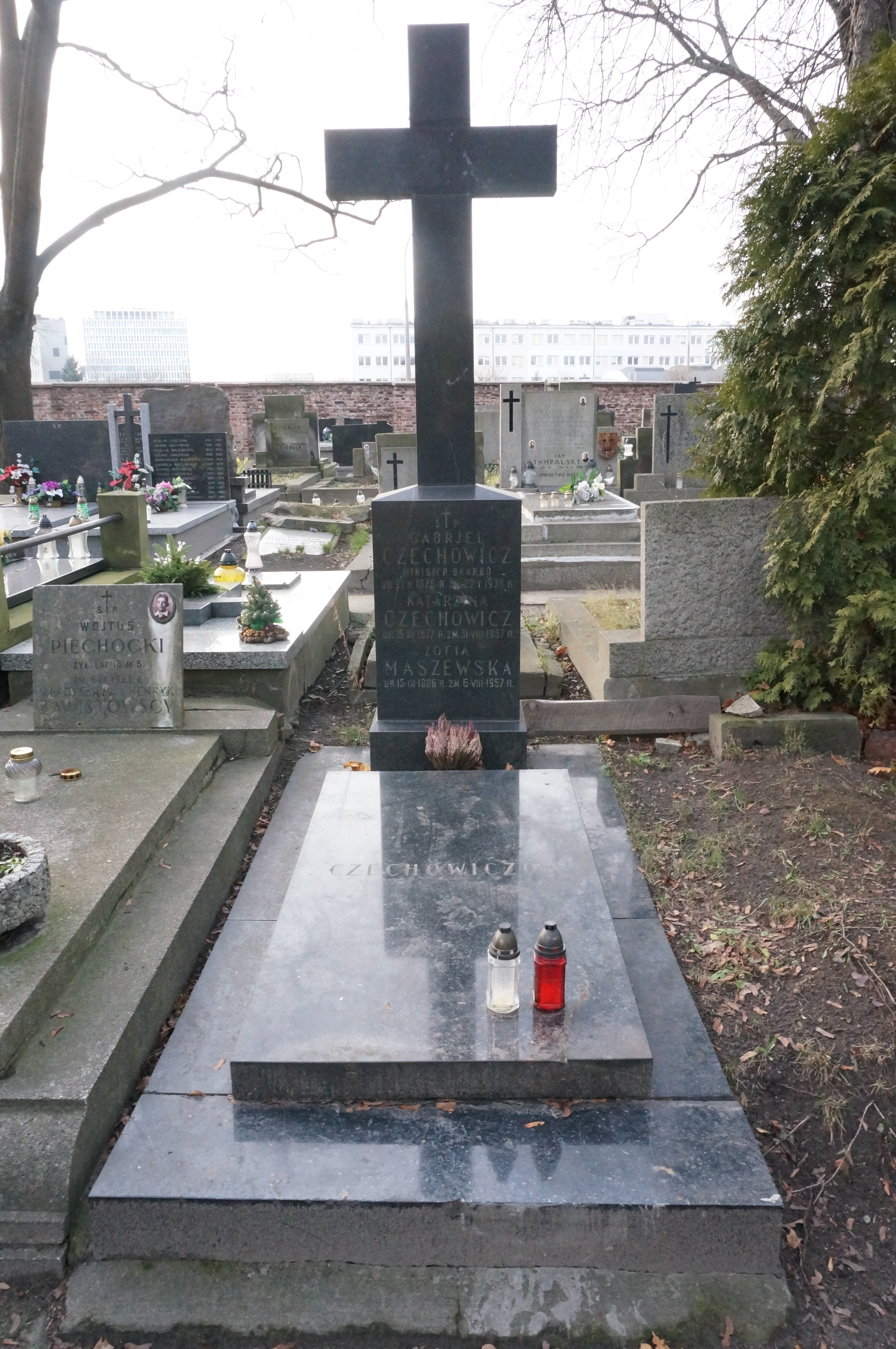 The grave of Gabriel Czechowicz at the Powązki Cemetery (section 331, row 1, grave 25)